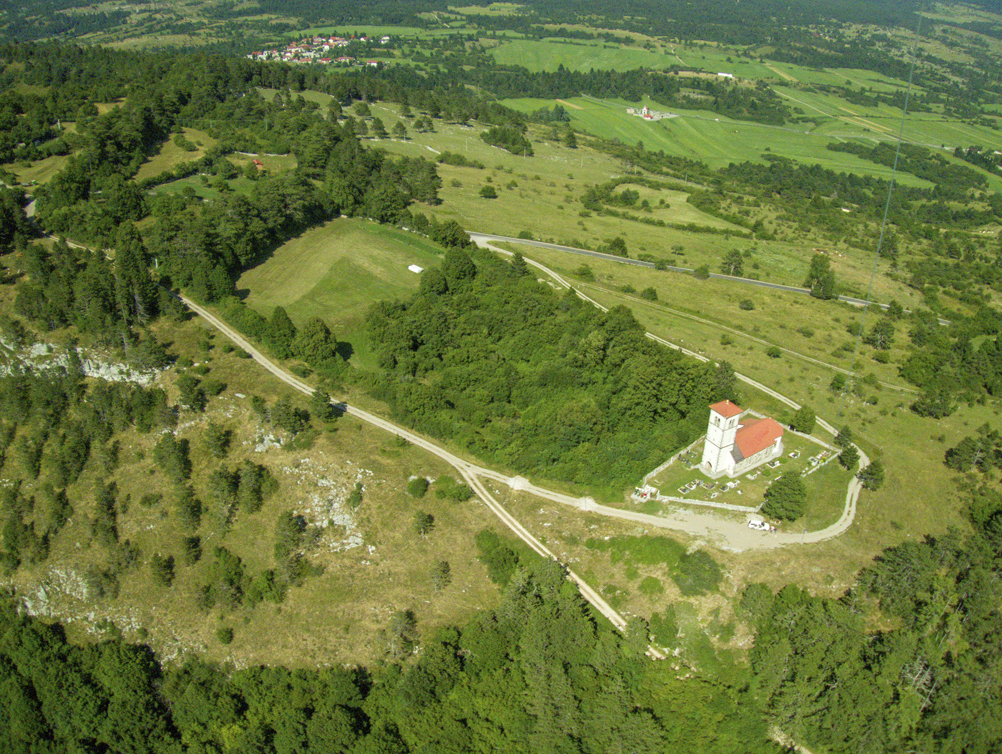 A cute little 11th century gothic church of St. Martin at Šilentabor. The tree lines on the left are hiding something even older - massive ramparts of an Iron Age hill fort. Kite aerial photo, shot with Canon A810 on a Royal 69 sled kite. This media shows a cultural heritage object of Slovenia with the EŠD number: 764